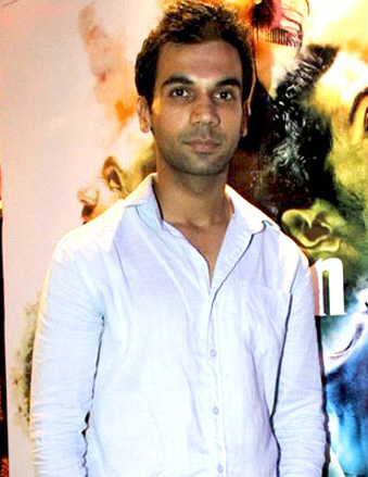 Raj Kumar Yadav at Music launch of 'Shaitan' with Shaitan Nites live performances